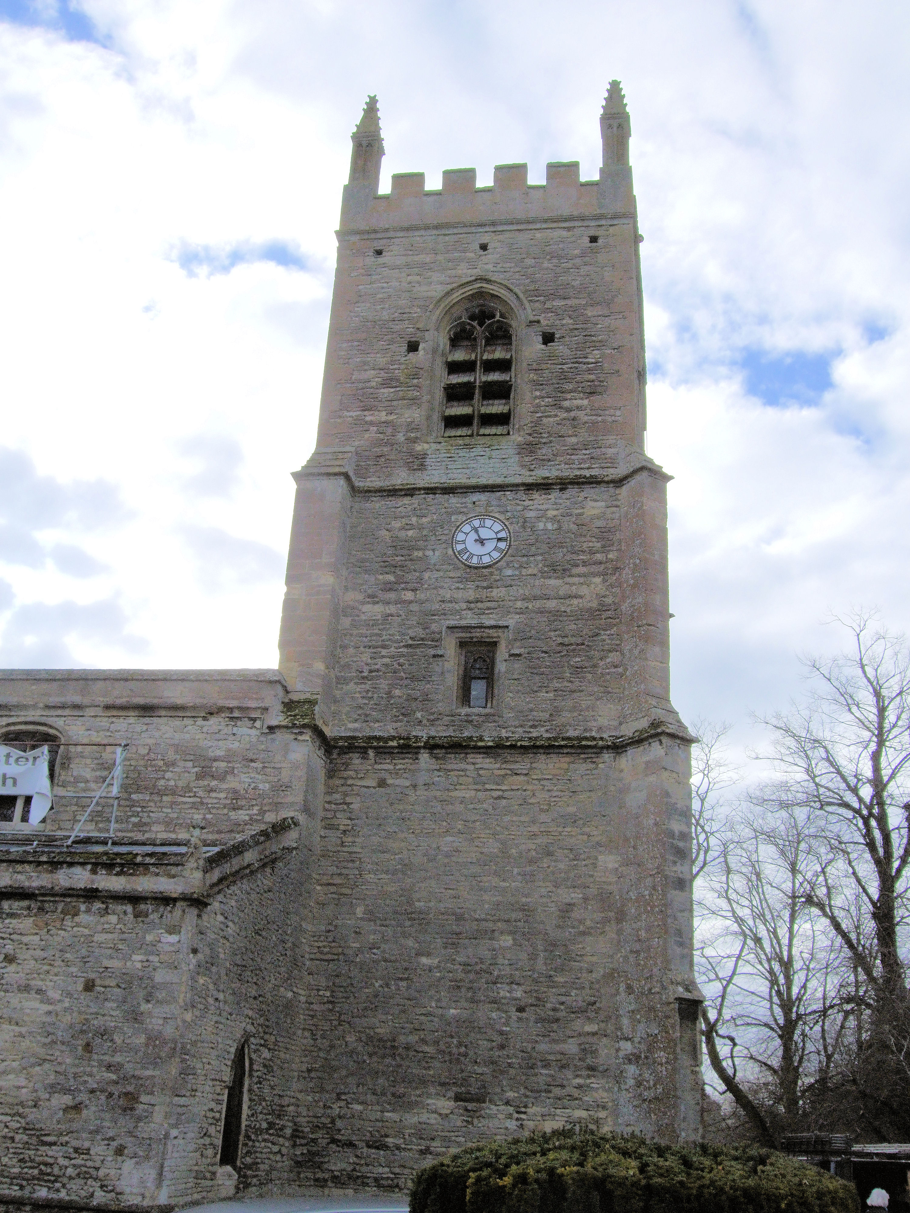 West tower of St Edburg's parish church, Bicester, Oxfordshire